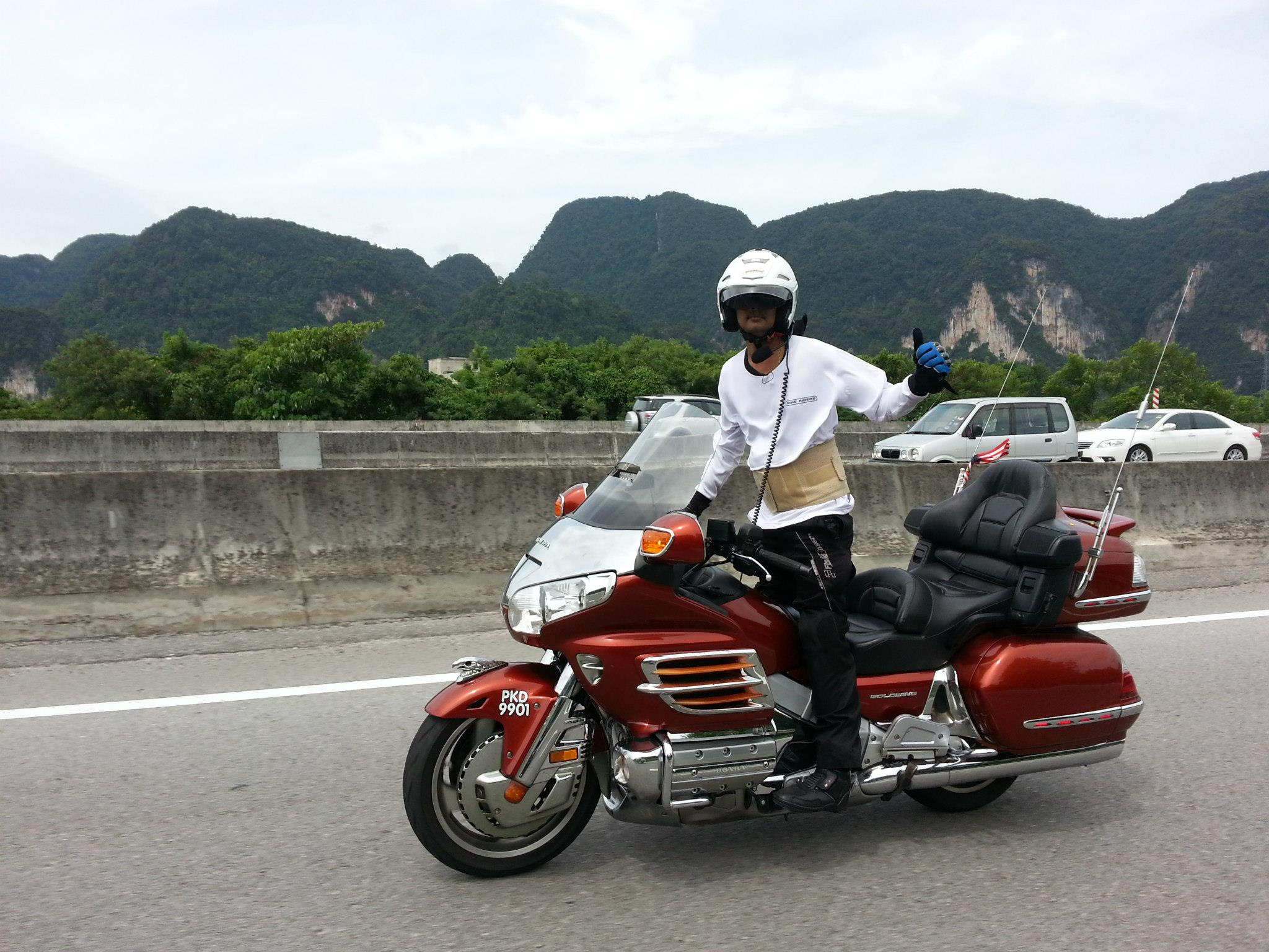 NadarajanPeriasamy is a well known bike rider in Malaysia. And he holds lot of records.